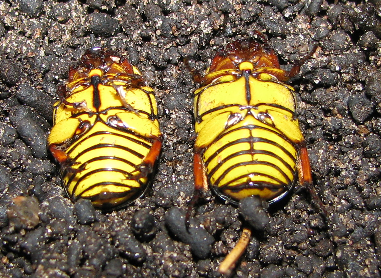 Pachnoda cordata (from Tansania) ventral view (female left, male right)